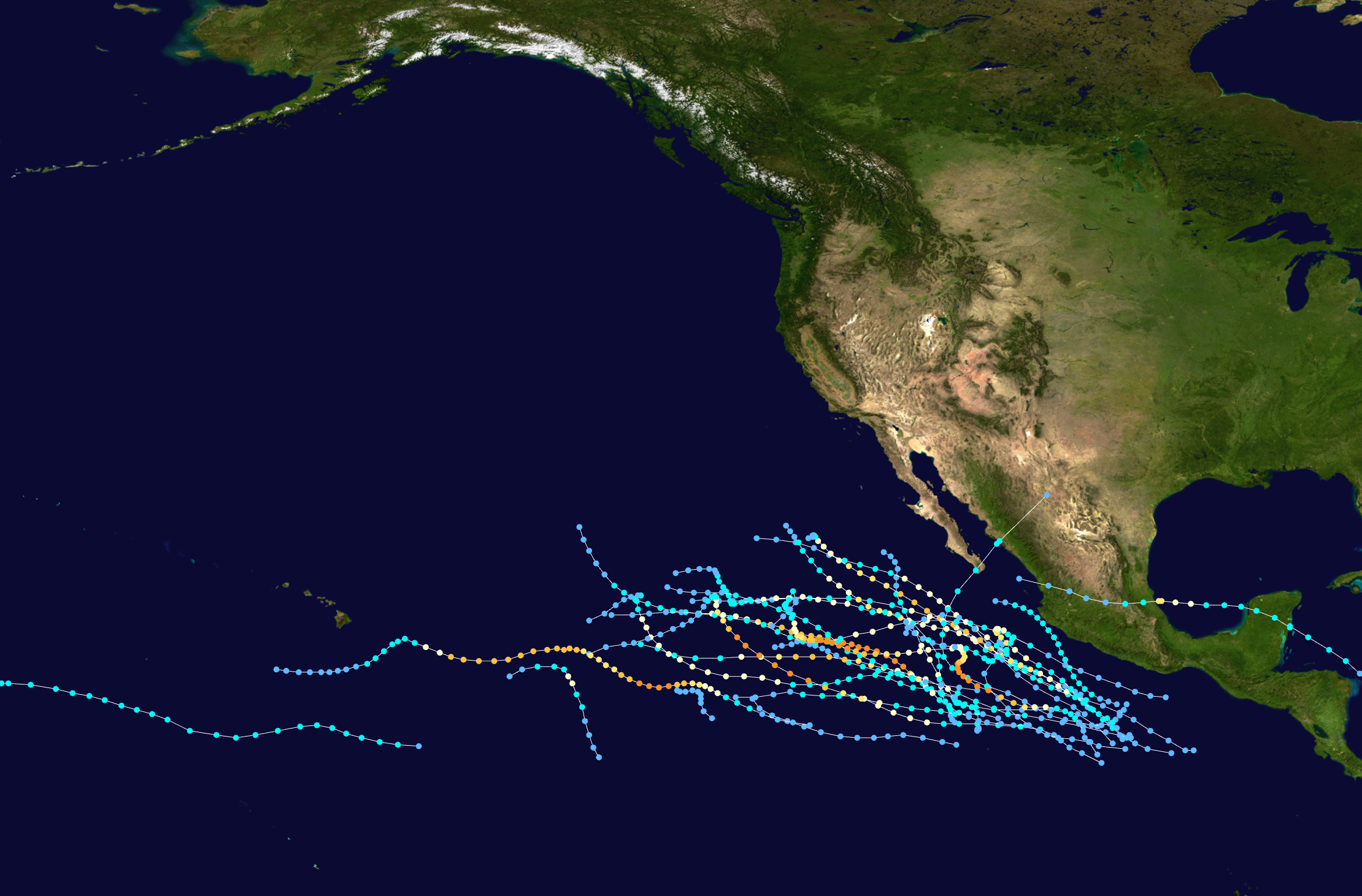 This map shows the tracks of all tropical cyclones in the 1990 Pacific hurricane season. The points show the location of each storm at 6-hour intervals. The colour represents the storm's maximum sustained wind speeds as classified in the Saffir-Simpson Hurricane Scale (see below), and the shape of the data points represent the type of the storm. Saffir–Simpson scale Tropical depression≤38 mph≤62 km/h Category 3111–129 mph178–208 km/h Tropical storm39–73 mph63–118 km/h Category 4130–156 mph209–251 km/h Category 174–95 mph119–153 km/h Category 5≥157 mph≥252 km/h Category 296–110 mph154–177 km/h Unknown Storm type Tropical cyclone Subtropical cyclone Extratropical cyclone / Remnant low / Tropical disturbance / Monsoon depression